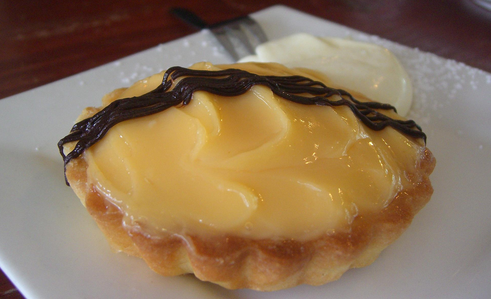 A lemon tart, garnished with chocolate